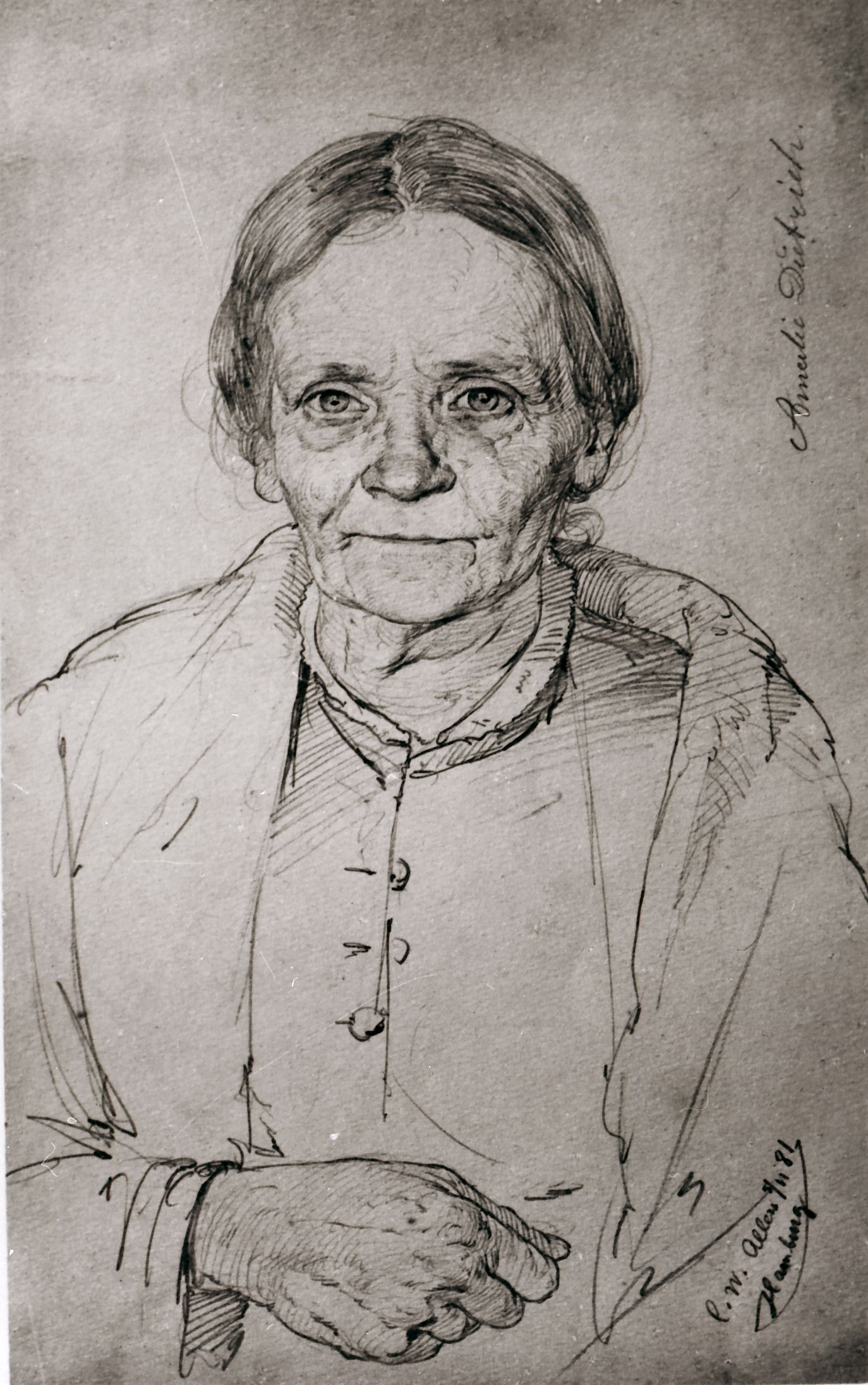 A copy of Portrait of Amalie Dietrich on her 60th birthday, drawn by Christian Wilhelm Allers. Original drawing is at Herbarium Hamburgense, Universität Hamburg, .